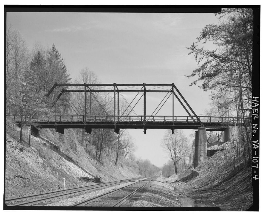 Oak Ridge Bridge, Spanning Southern Railroad at VA State Route 653, Oak Ridge vicinity (Nelson County, Virginia) cropped This image or media file contains material based on a work of a National Park Service employee, created as part of that person's official duties. As a work of the U.S. federal government, such work is in the public domain in the United States. See the NPS website and NPS copyright policy for more information. Creator: U.S. Department of the Interior, National Park Service, Historic American Engineering Record. Survey number HAER VA,63-OAKR.V,1-4 Source: U.S. Library of Congress, Prints and Photographs Division, "Built in America" Collection. Copyright: "The original measured drawings and most of the photographs and data pages in HABS/HAER/HALS were created for the U.S. Government and are considered to be in the public domain." Object location37° 42′ 11″ N, 78° 52′ 16″ W